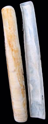 Ensis siliqua; Marine bivalved shell from the North Sea.